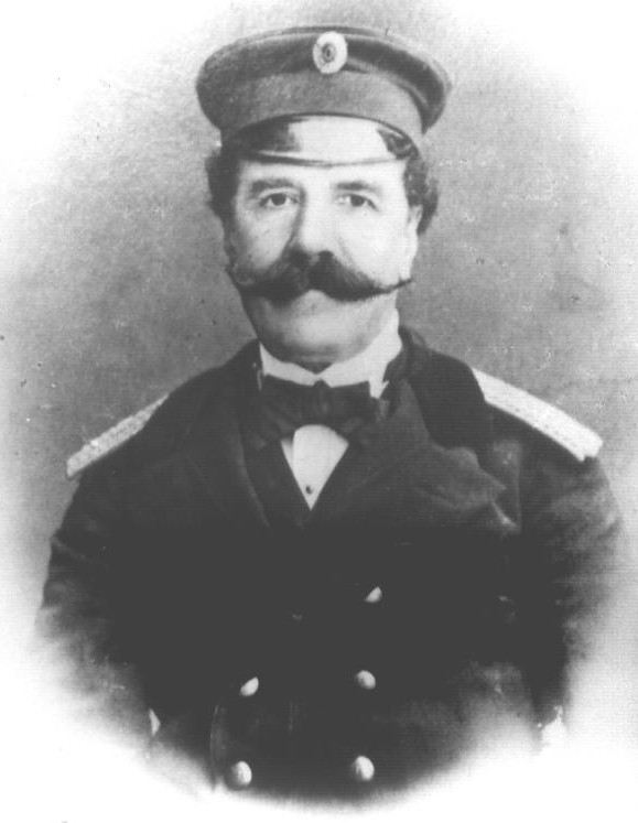 Sava Dobroplodni (1820-1894), Bulgarian teacher and theatre-goer from the times of the Bulgarian National Revival